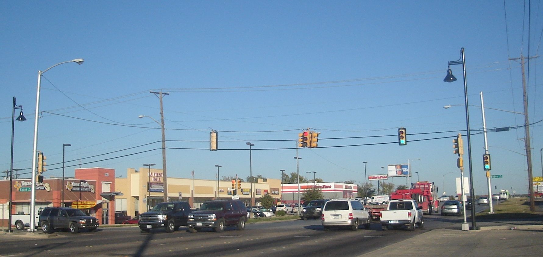 The traffic light at the intersection of Berry Street and Evans Avenue in Fort Worth, Texas.